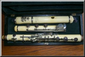 photo de la flute du Tzar, collection de Jean-Pierre Eustache Photo of the Tsar's flute, collection of Jean-Pierre Eustache